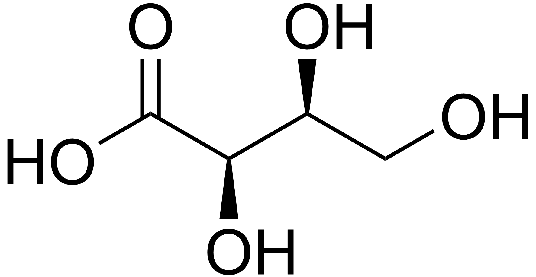 Chemical structure of L-threonic acid